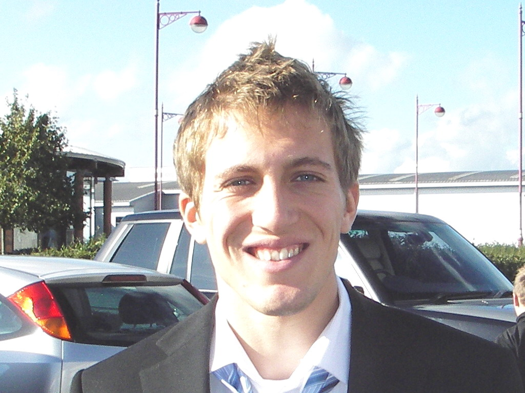 Arturo Lupoli. Arsenal player and Derby County player.